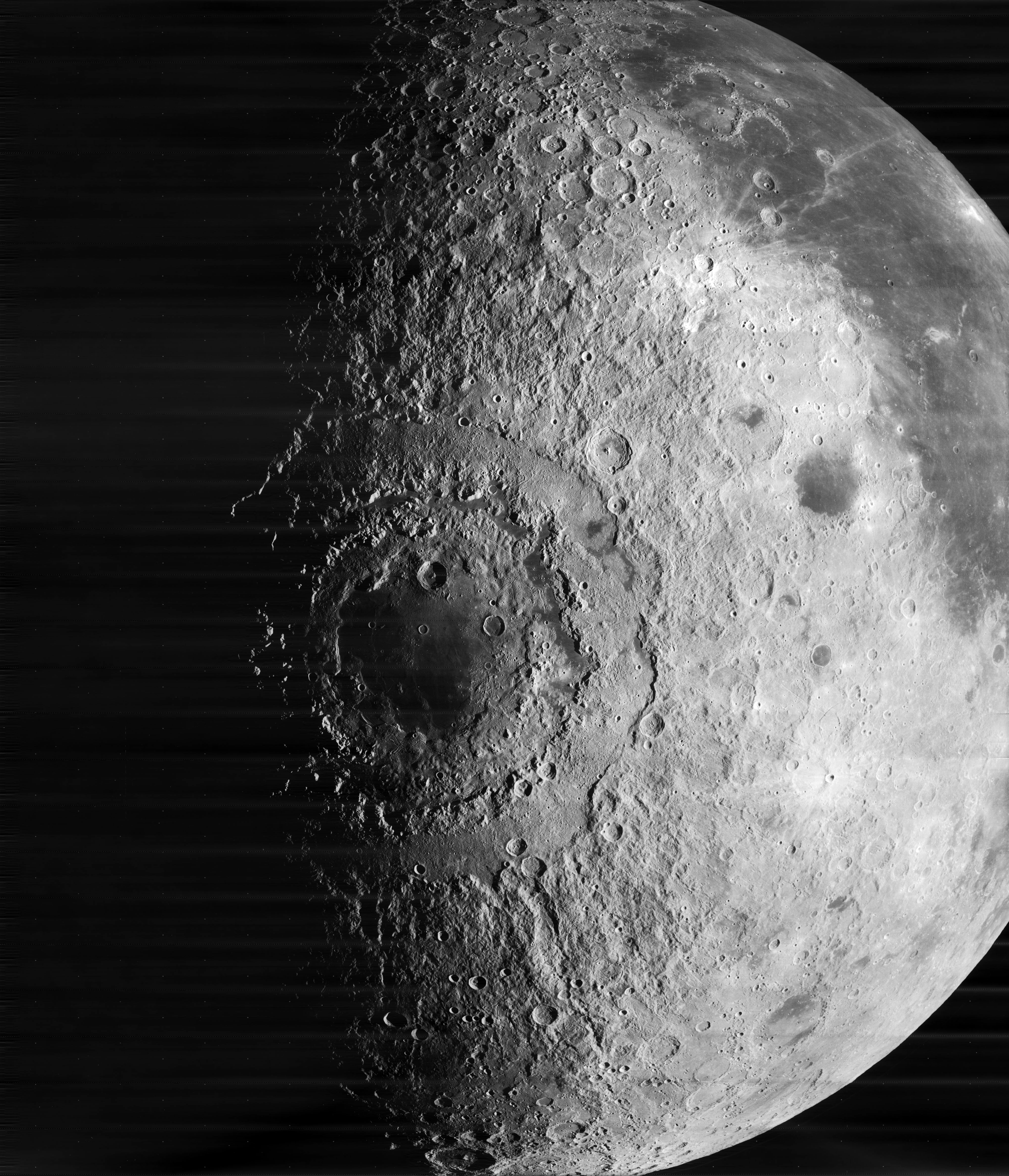 The Moon. Basin of Mare Orientale is in the center, and Oceanus Procellarum is in the upper right. Imaged by Lunar Orbiter 4 (1967) from altitude 2773 km.